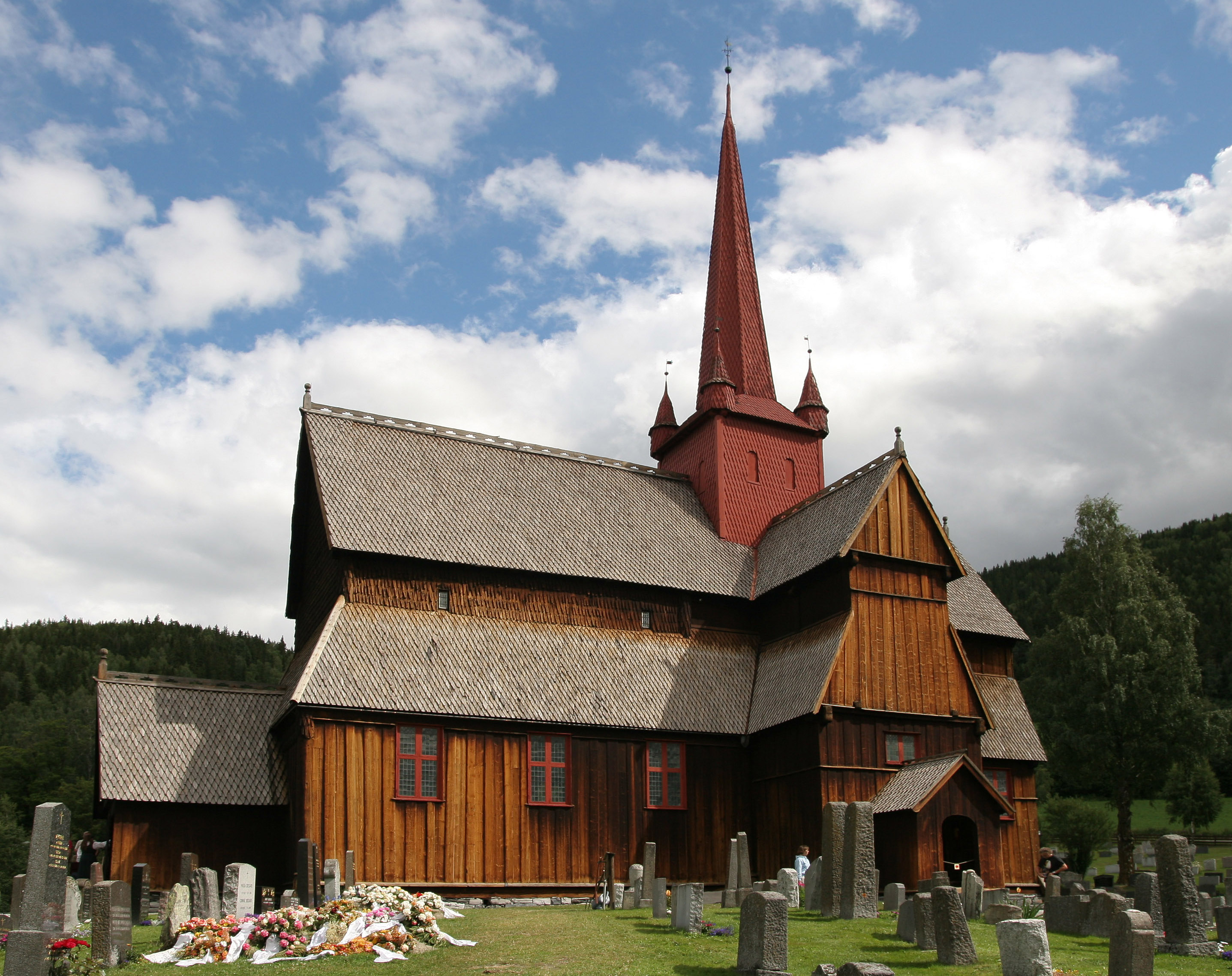 The Ringebu stav church (Norway)